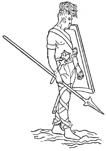 Gaul soldier of the army of Hannibal, as printed in Theodore Ayrault Dodge's A HISTORY OF THE ART OF WAR AMONG THE CARTHAGINIANS AND ROMANS DOWN TO THE BATTLE OF PYDNA, 168 B. C., WITH A DETAILED ACCOUNT OF THE SECOND PUNIC WAR Houghton Mifflin Company, Boston & New York (1891). Hand scanned.